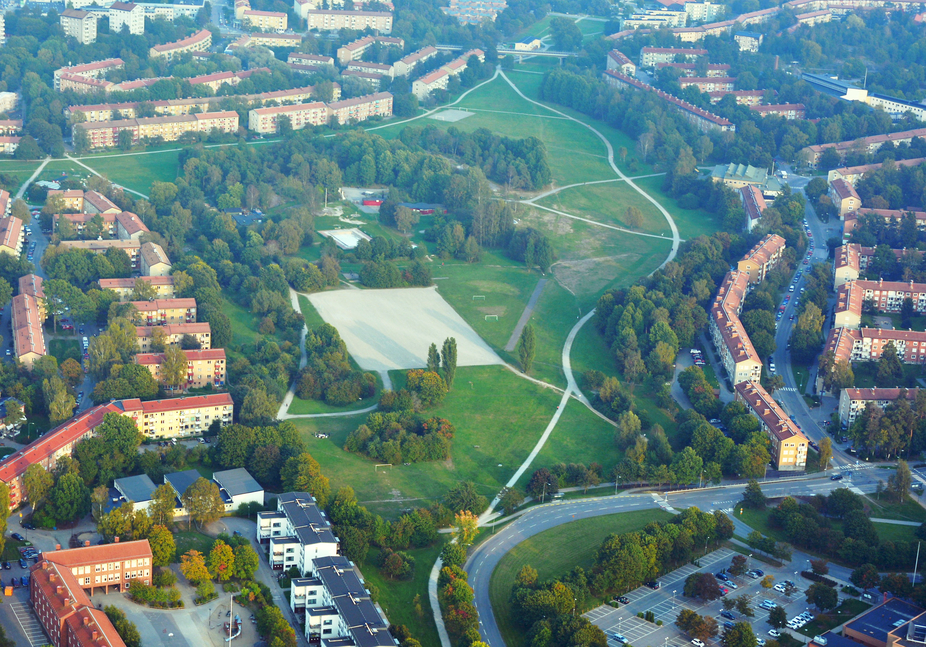 Nytorps gärde in Kärrtorp, southern Stockholm, Sweden.